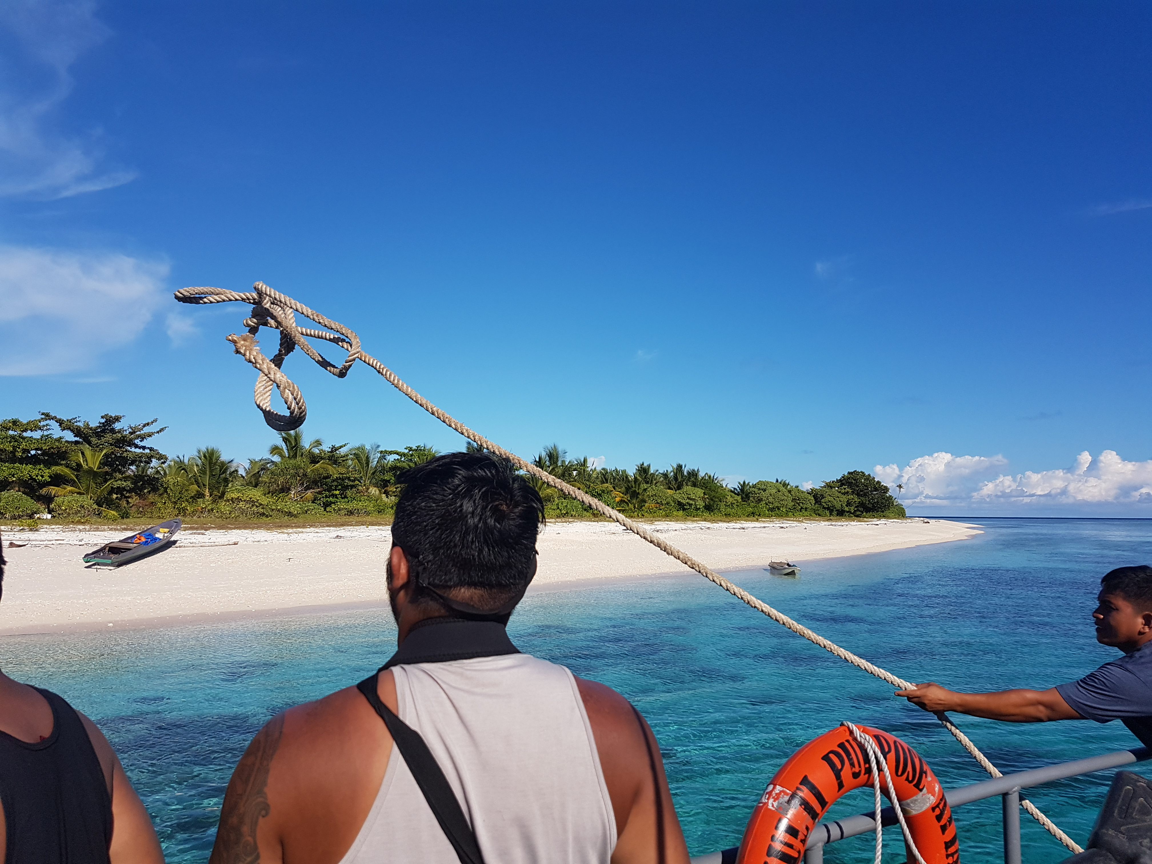 The Multi-Purpose Attack Craft of the Philippine Navy docks at Mardanas Island for a mapping, reconnaissance, deployment-extraction mission of the Philippine Marine Corps and Schadow1 Expeditions